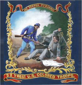 Flag of the 22nd Regiment, United States Colored Troops